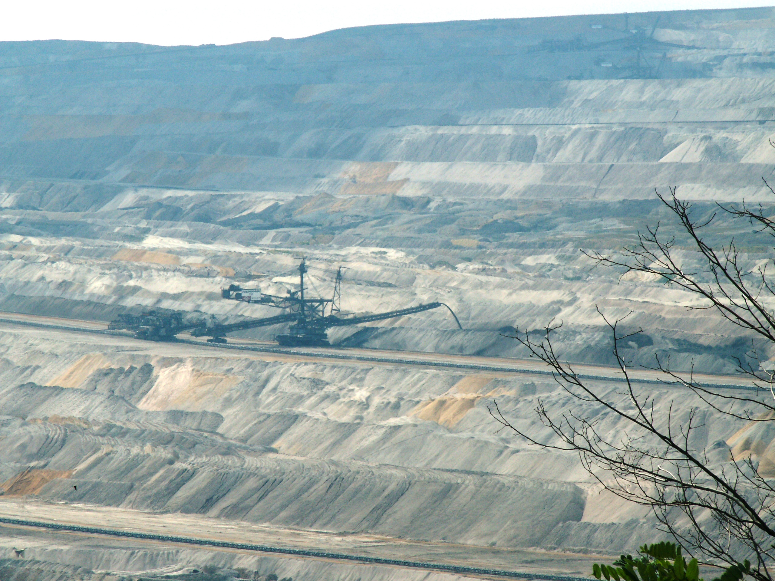 Stacker 739 in the lignite pit of Hambach, Germany